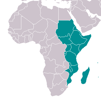 Map of Africa, inclusive Eastern region. See: Maps of Africa. Mod of Image:BlankMap-Africa.png. See also Image:Africa-countries-eastern.png